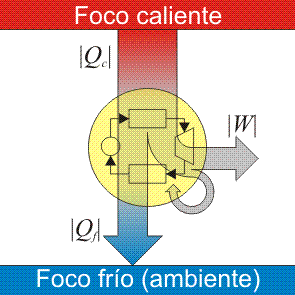 Depiction of a heat engine